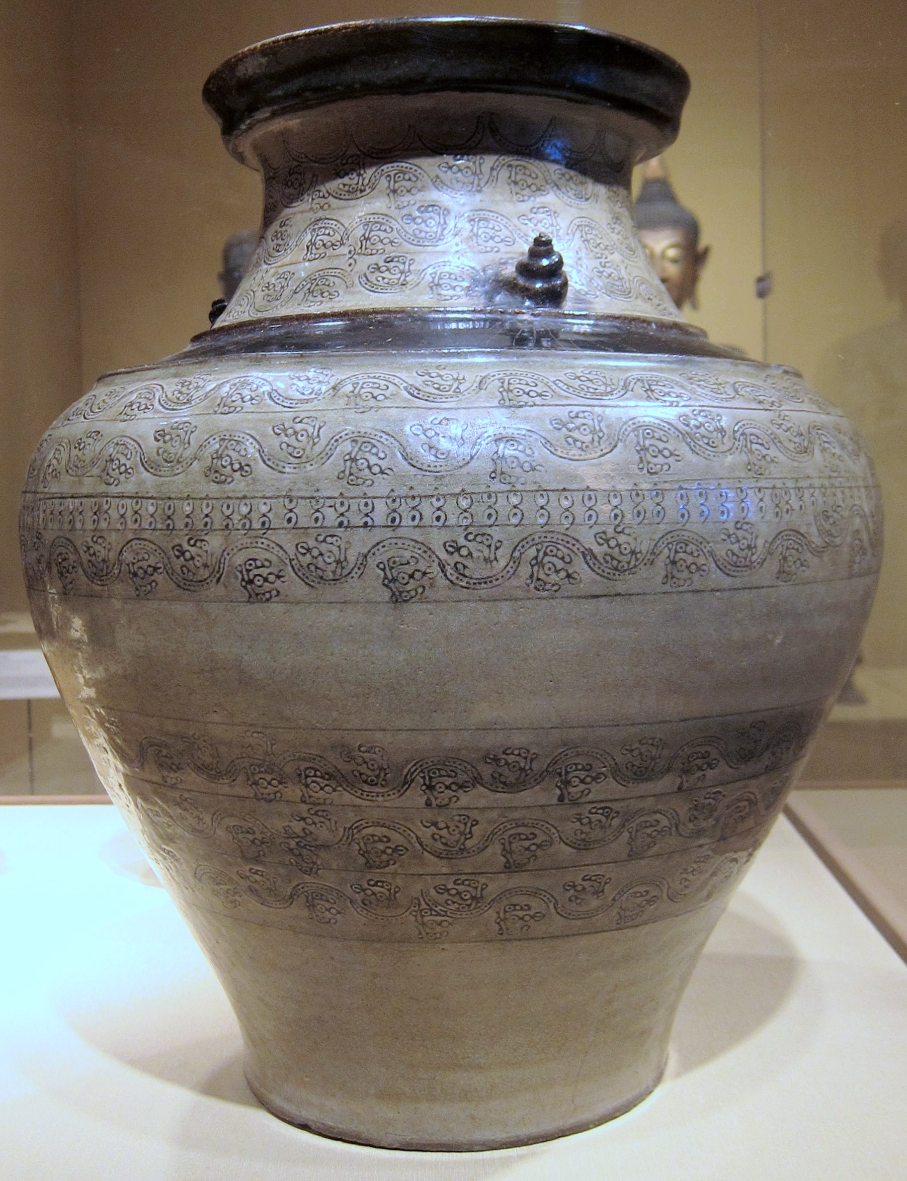 Storage Jar from Thailand, 15th century, glazed stoneware, Honolulu Academy of Arts